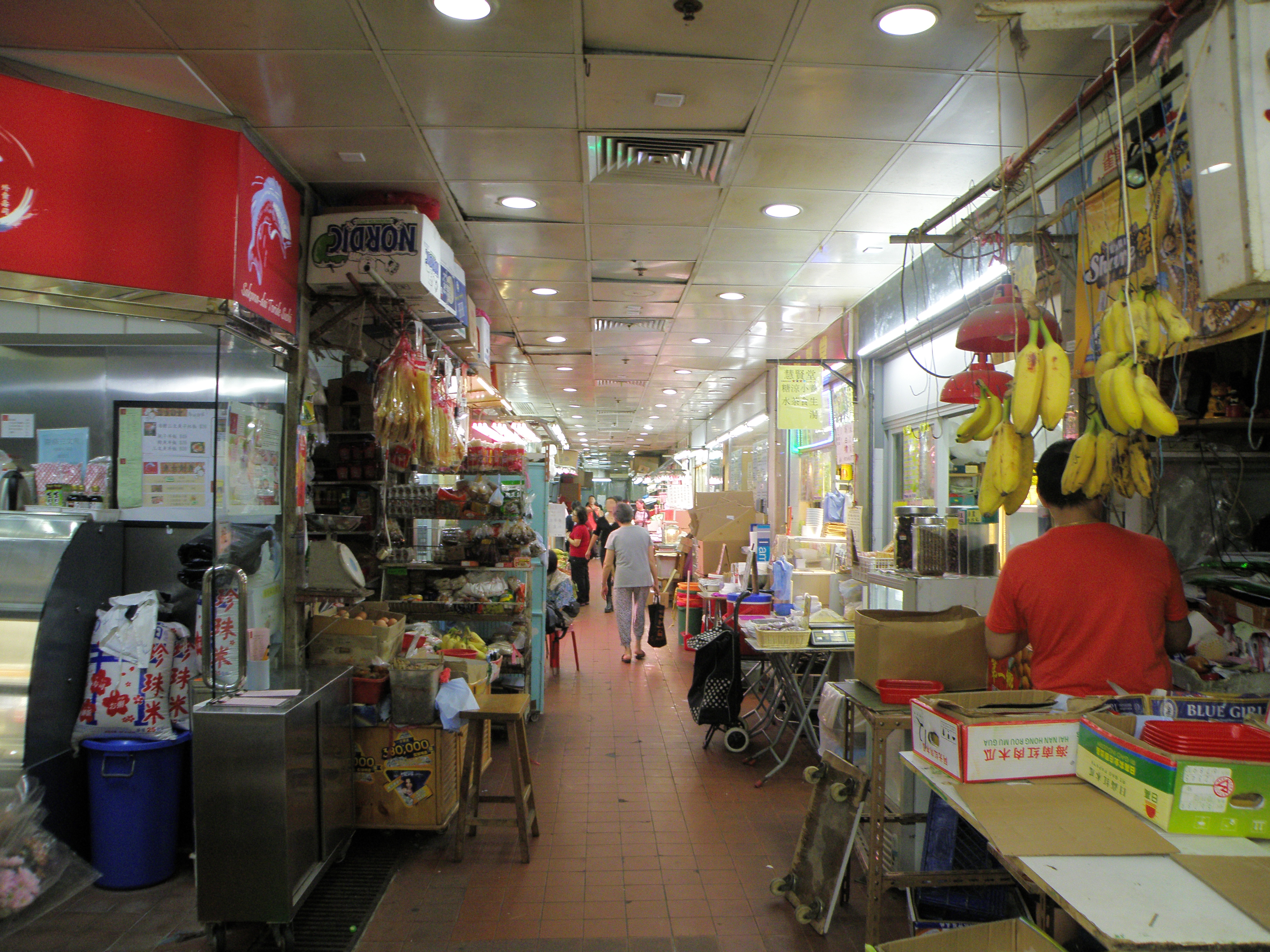 Saddle Ridge Garden Market in Wu Kai Sha, Hong Kong.